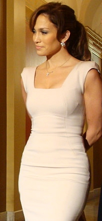 Jennifer Lopez in 2009